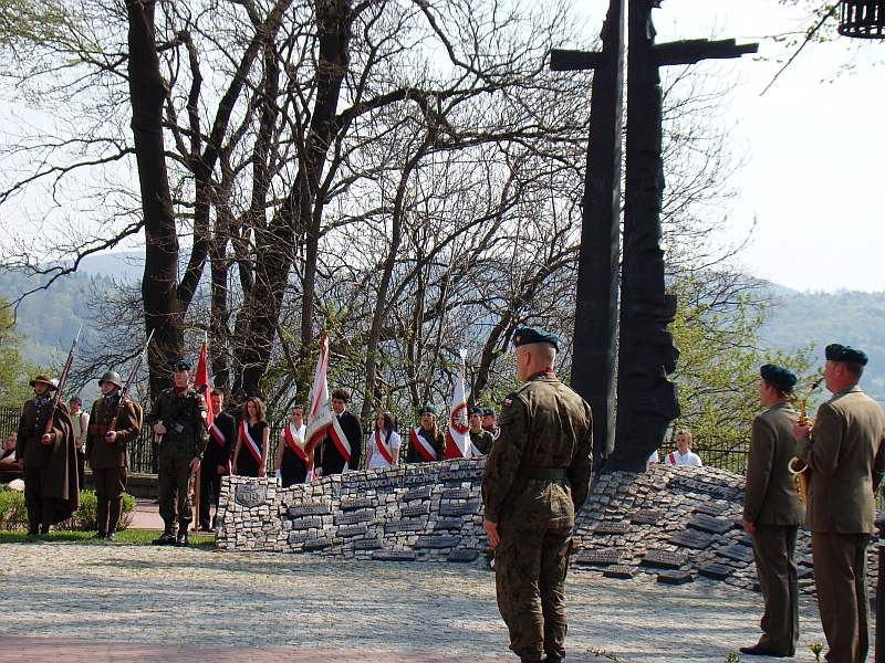 Feast of the Union of Soldiers of the Polish Army in Sanok